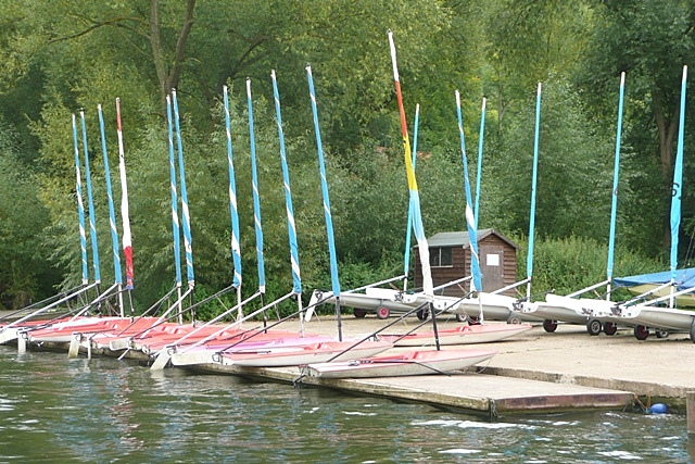 Dinghies at Longridge The reach between Marlow and Bourne End is popular for sailing, with a number of dinghy bases. This one is at the southern end, with the dinghies waiting for action with their sails tightly furled around their masts like umbrellas waiting for a rainy day.